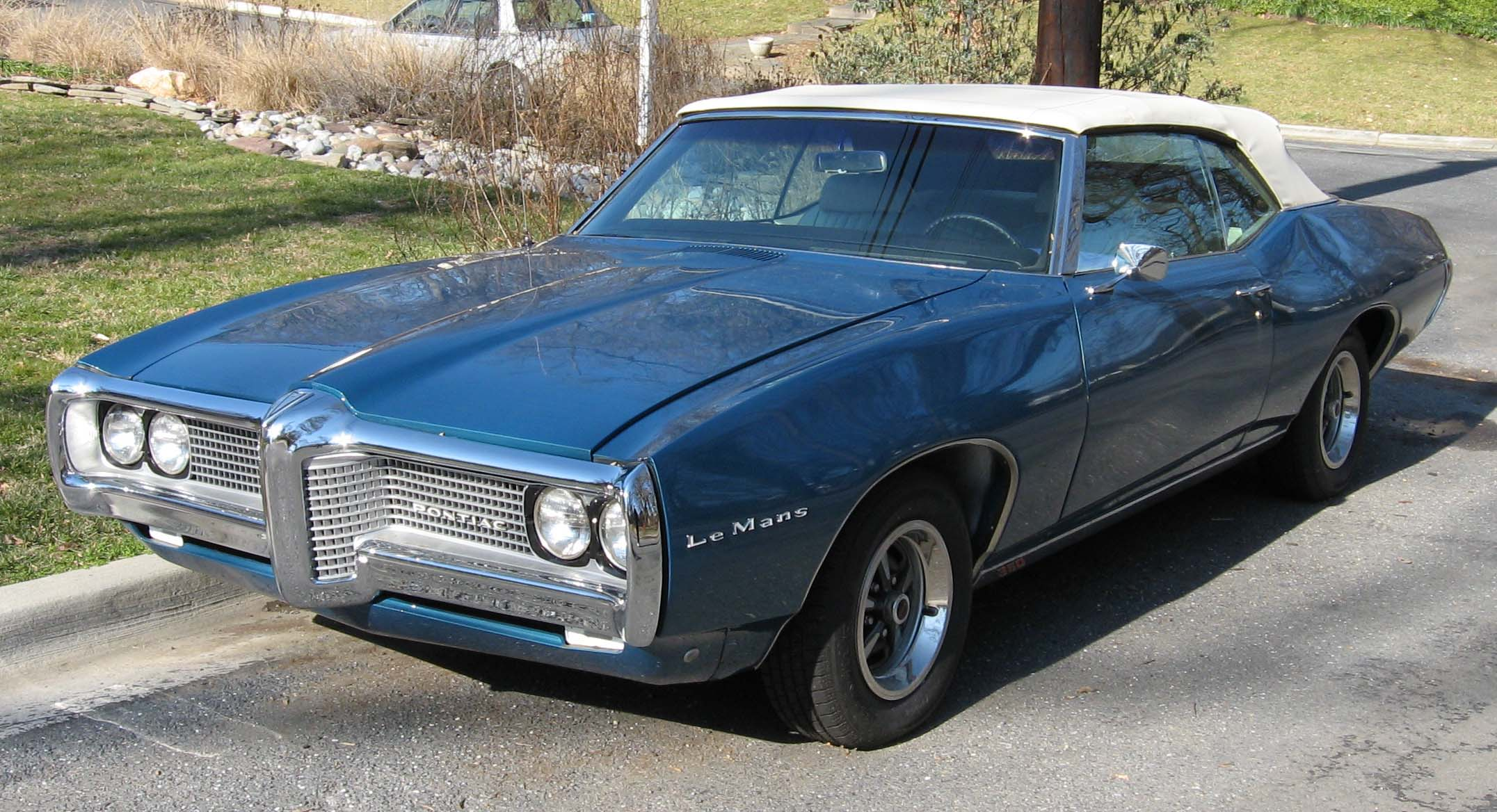 Pontiac LeMans photographed in USA.